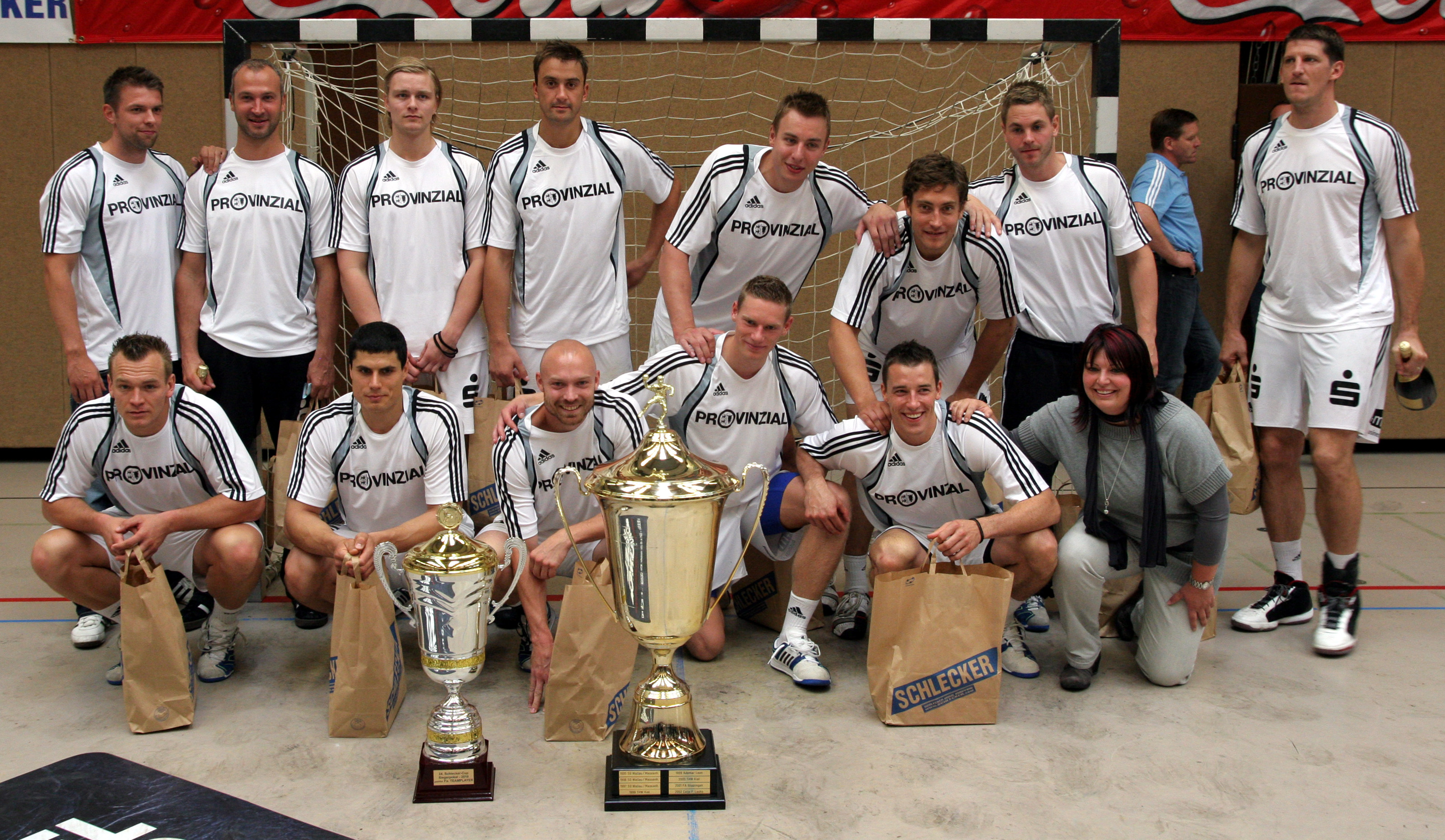 The team from THW Kiel, on August 15th, 2010 in Ehingen (Germany).